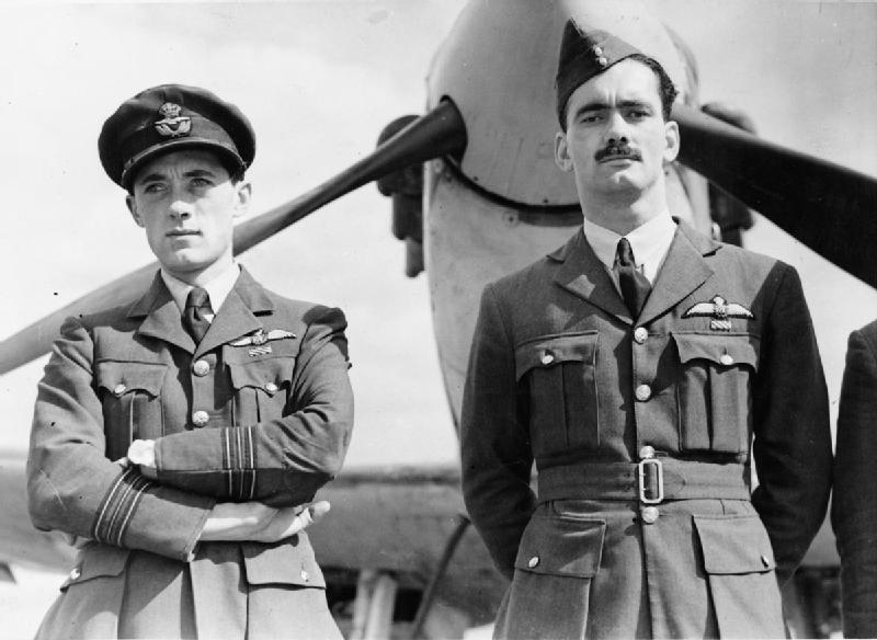 Royal Air Force Fighter Command, 1939-1945. The Commanding Officer of No. 19 Squadron RAF, Squadron Leader B J E "Sandy" Lane (left) and one of his flight commanders, Acting Flight-Lieutenant W G Clouston, standing in front of a Supermarine Spitfire at Fowlmere, Cambridge.